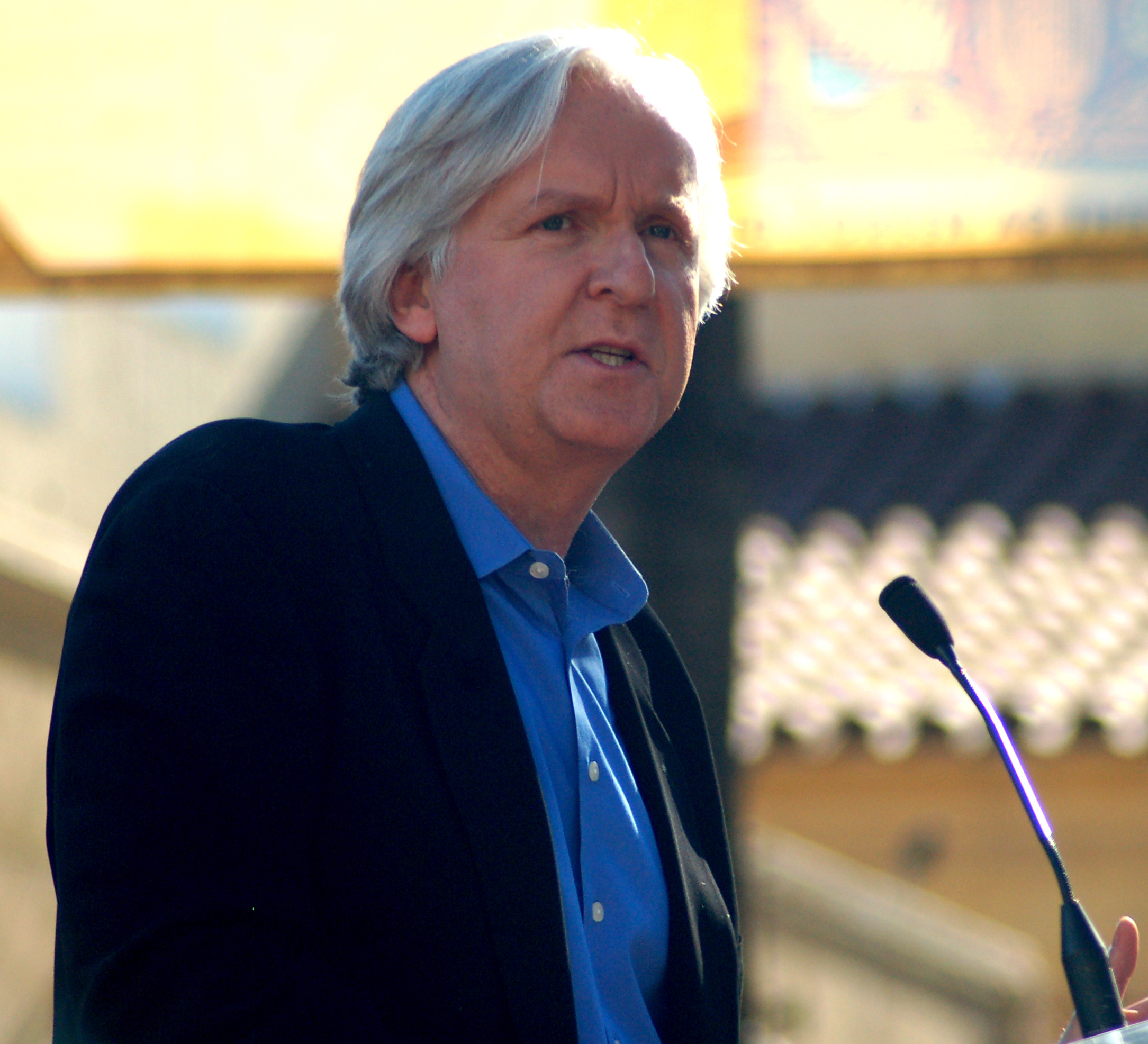 James Cameron at a ceremony to receive a star on the Hollywood Walk of Fame.